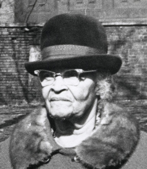 Melnea Cass and other participants at Boston Massacre Commemoration